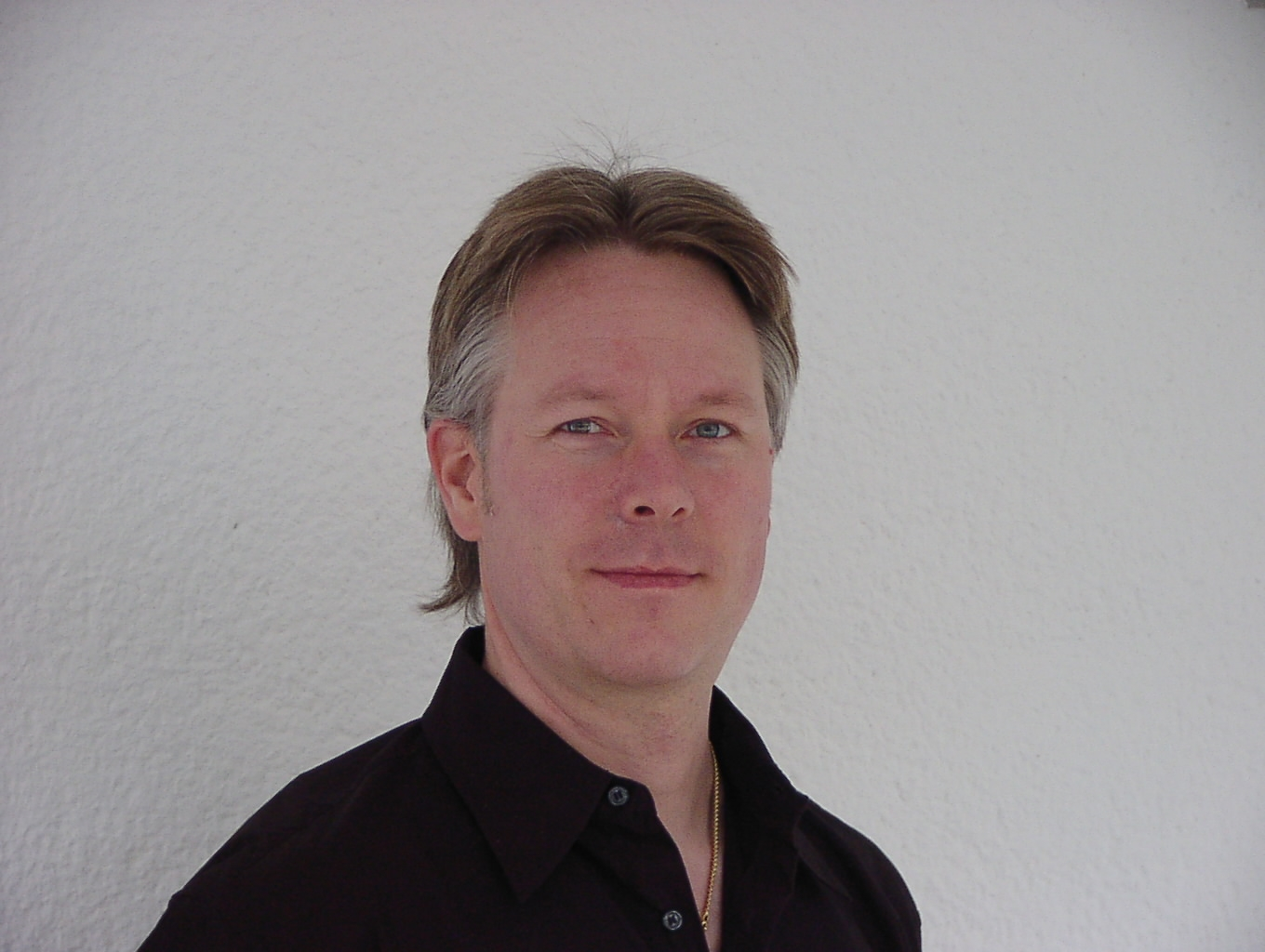 Hannes Schäfer 22008. Photo by Annette Walden